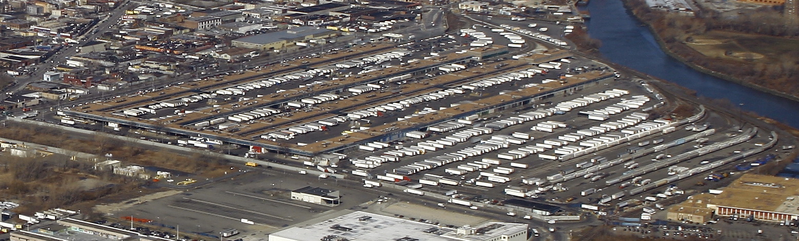 Hunts Point Cooperative Market in The Bronx, NY in February 2008